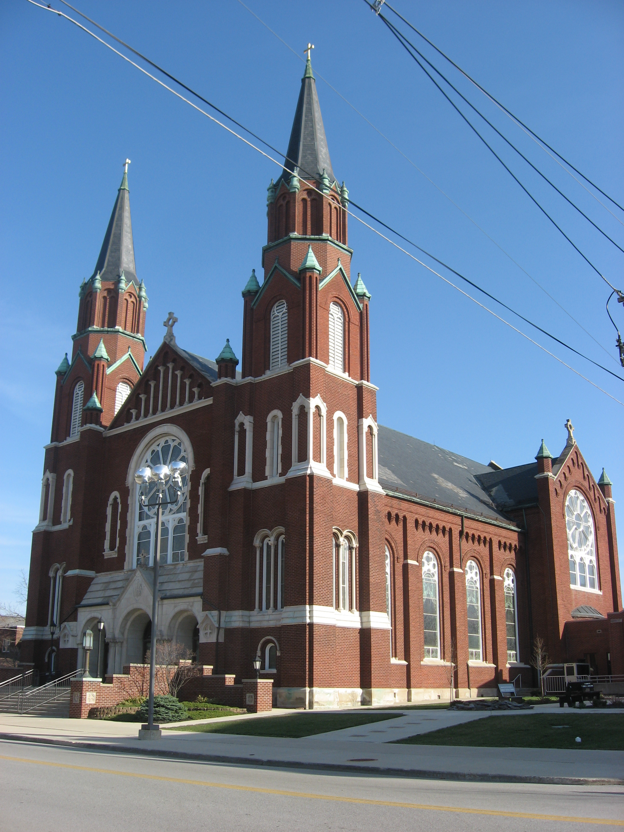 Front and side of St. Joseph's Catholic Church, located along Pearl Street between Pine and Blackhoof Streets in downtown Wapakoneta, Ohio, United States. Built in 1910, the church and its adjoining school were listed on the National Register of Historic Places as a part of the Cross-Tipped Churches of Ohio Thematic Resources.